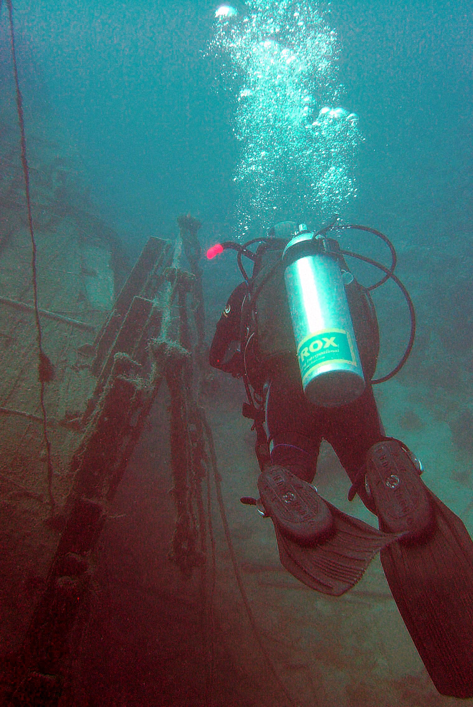 Wreck diving on Excalibur (Hurghada - Egypt) with Nitrox